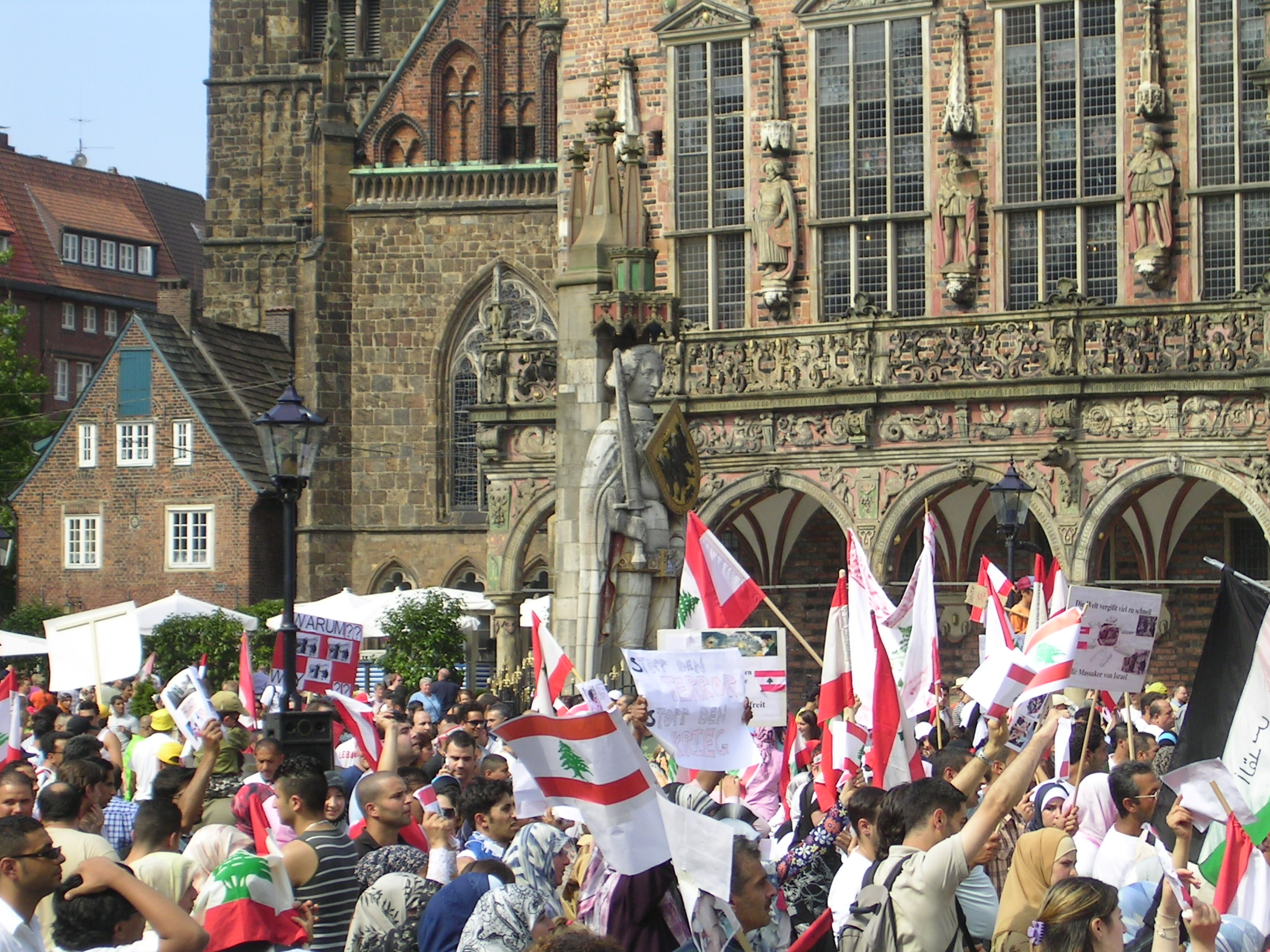 On the 22nd of July 2006 more than 3000 people demonstrated in Bremen, Germany, walking from the main train station to Bremen parliament. the demonstrations started at 3:00 pm and lasted for about 3 hours. They called for the end of the fight in Lebanon.